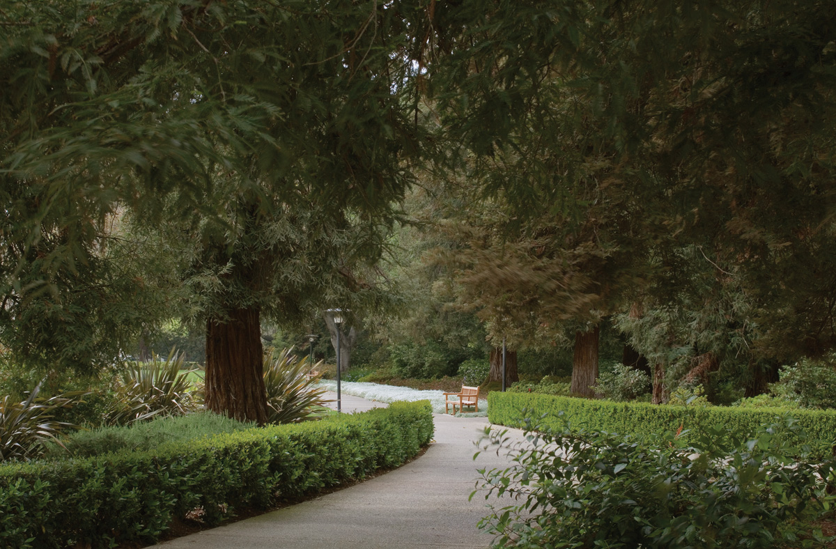 A tree lined pathway along Marston Quad, at Pomona College